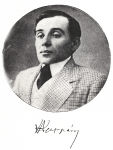 Constantinos Christomanos, greek author of the book for Empress Elizabeth of Austria (Sissy). Photography from the greek magazine Ποικίλη Στοά of 1912.